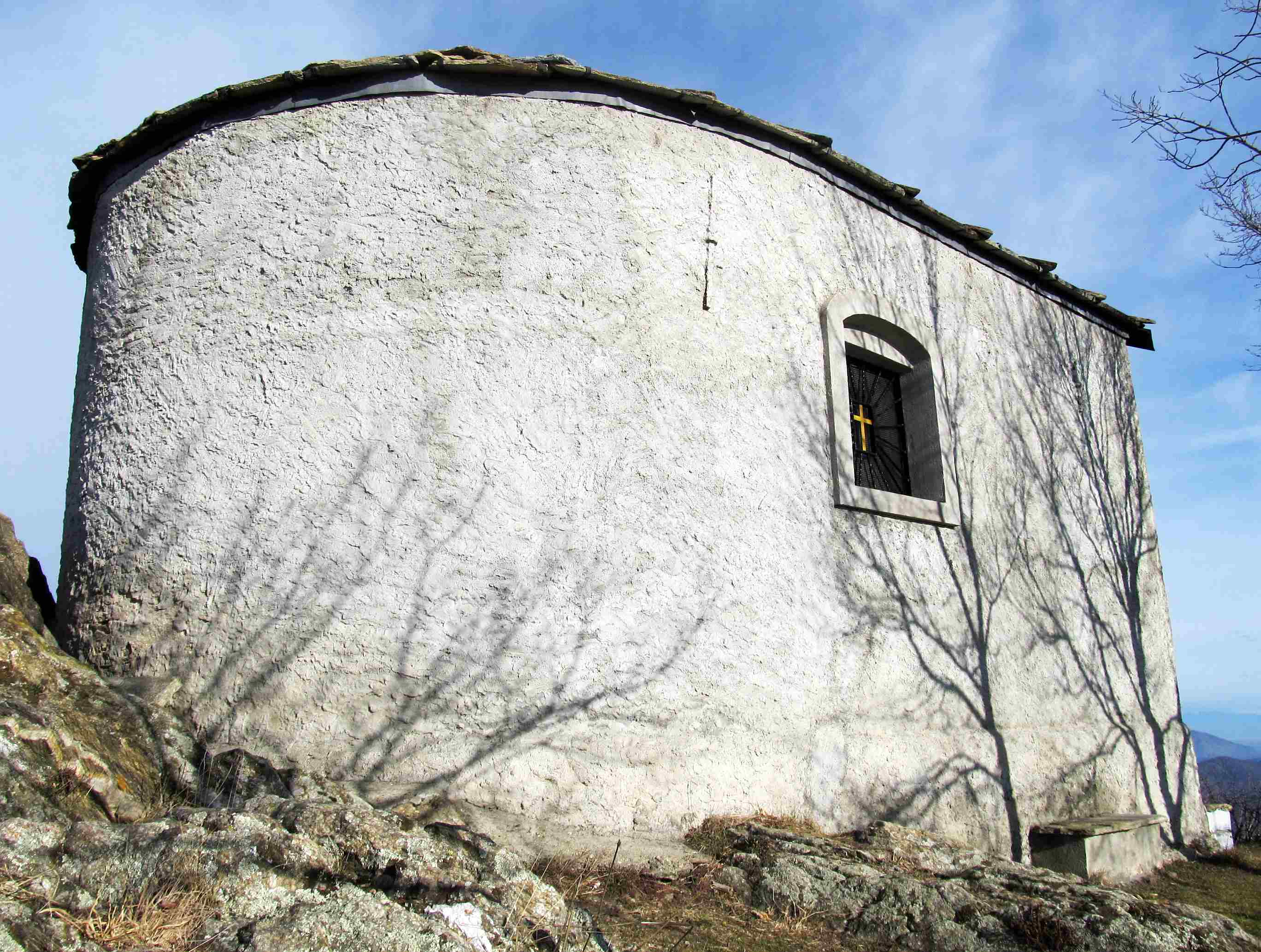 Saint Bernard chapel on Rocca due Denti (Cottian Alps)